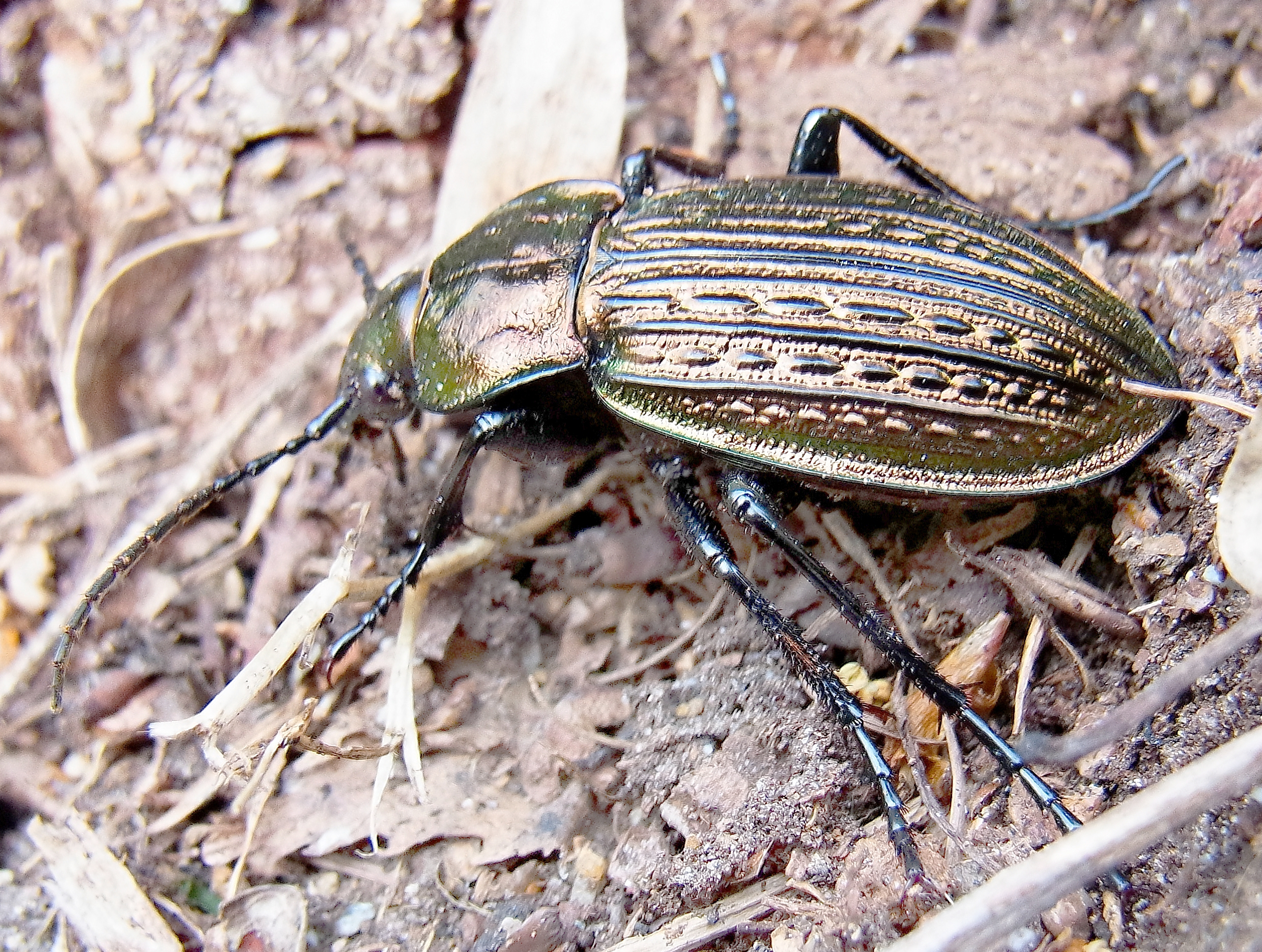 Carabus ullrichii from West-Hungary near Sopron in forest